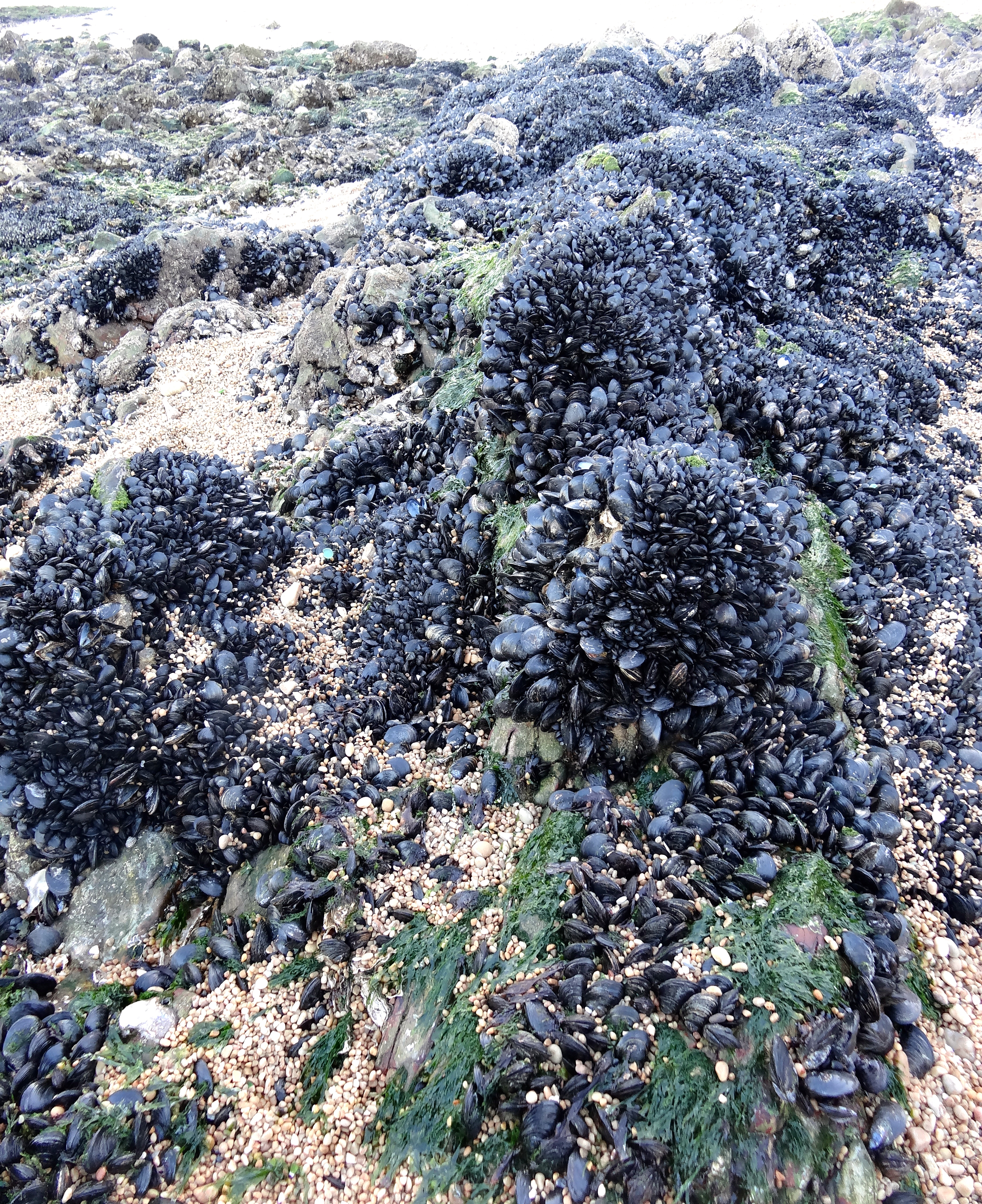 Mussels grown on rocks in intertidal zone in Dalian, China